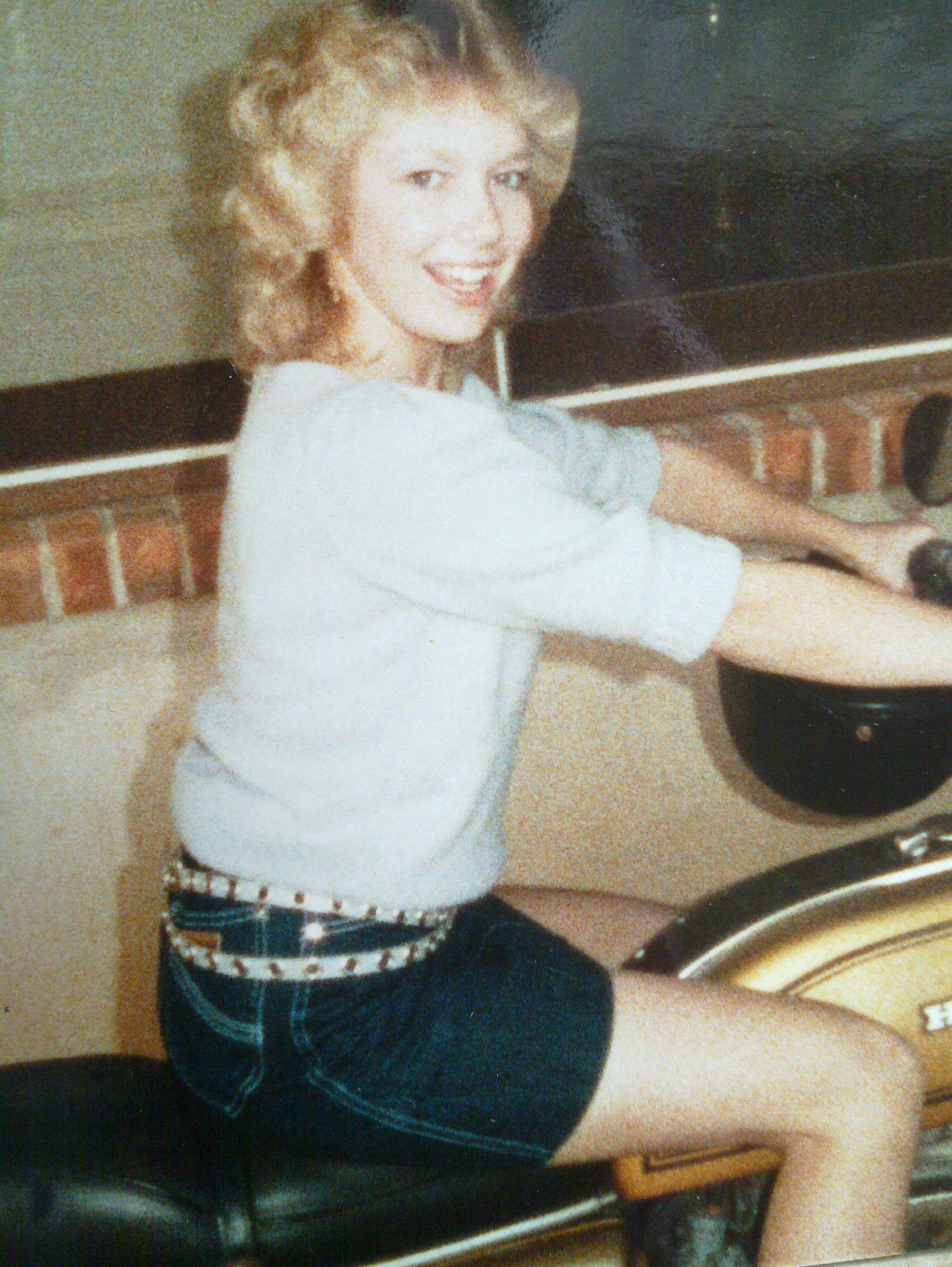 Girl with permed hair, fashionable at the 1980s time.